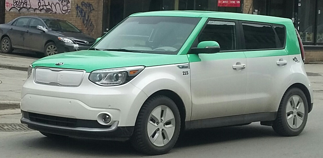 2014-present Kia Soul EV photographed in Montreal, Quebec, Canada.